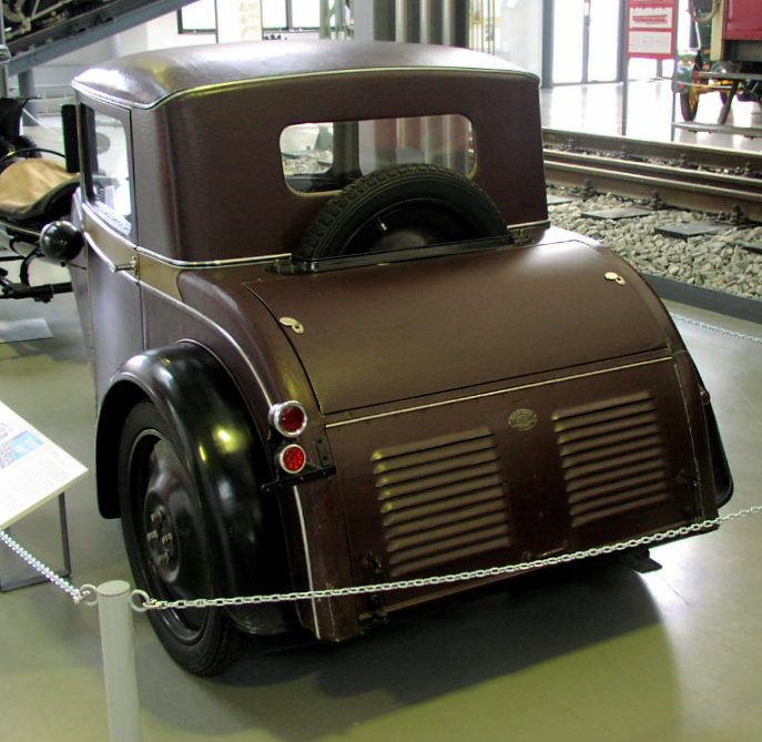 Goliath Pionier